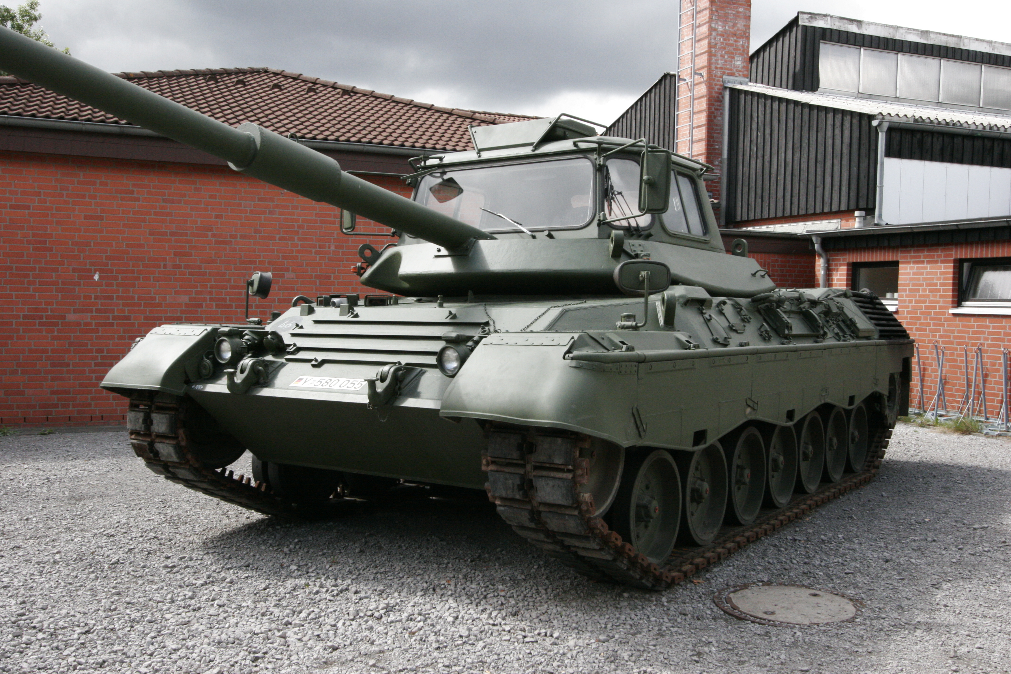 Leopard 1 based Training Tank on display at the Deutsches Panzermuseum Munster, Germany.